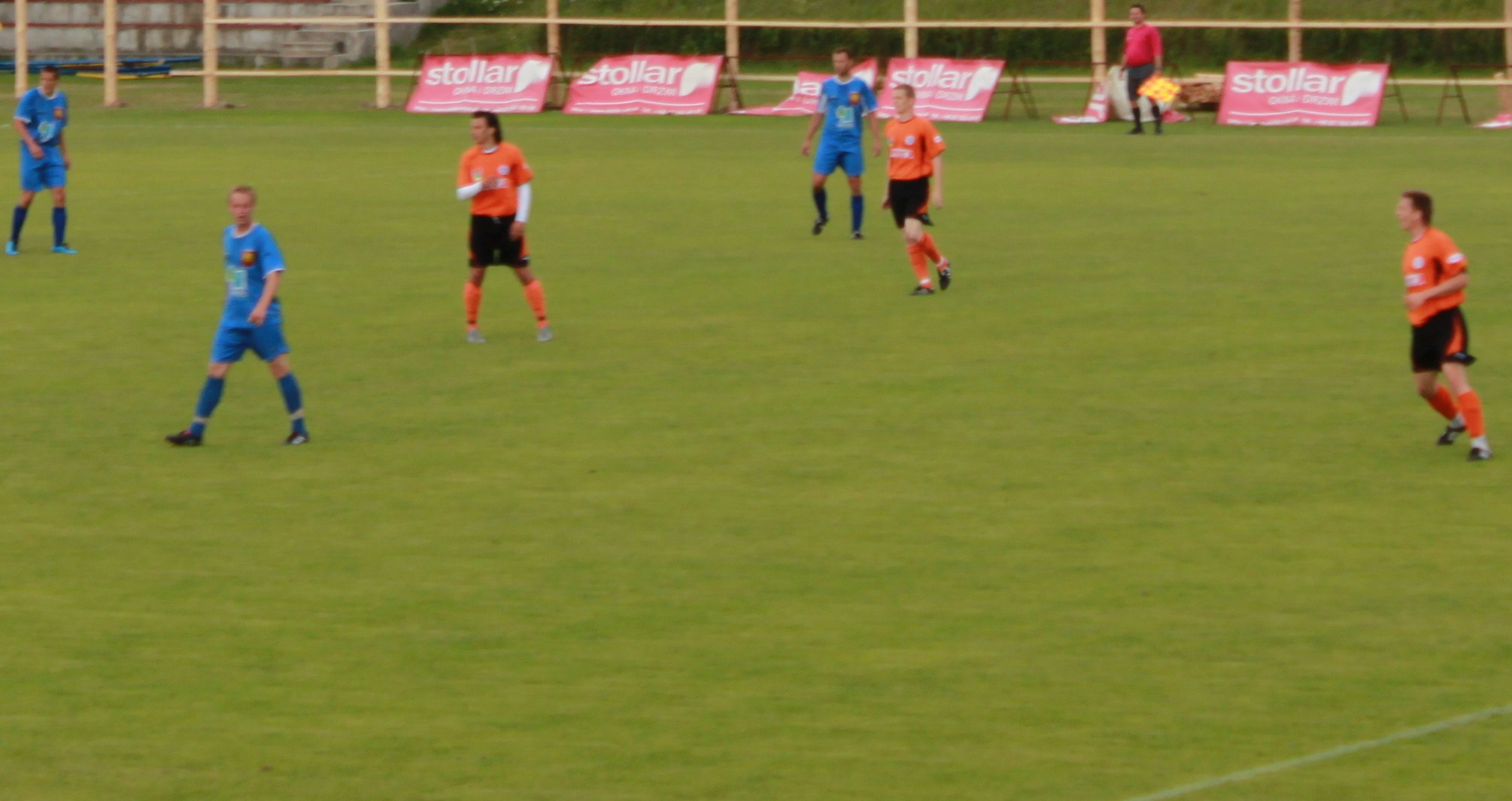 Match Wigry Suwałki against Sokół Sokółka.